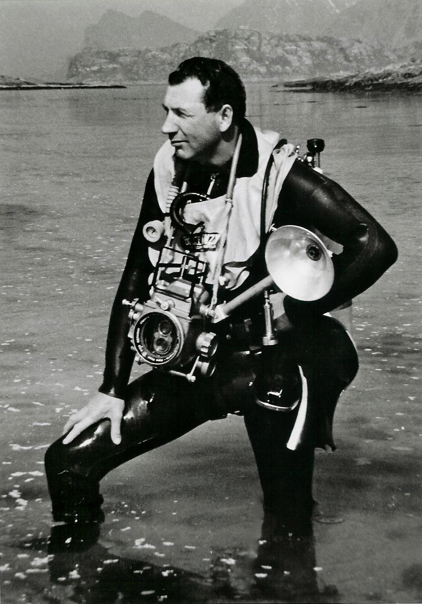 Odd Henrik Johnsen on a scuba diving mission near Vågøya, Bodø, Norway. Photo taken in the late 1960s.